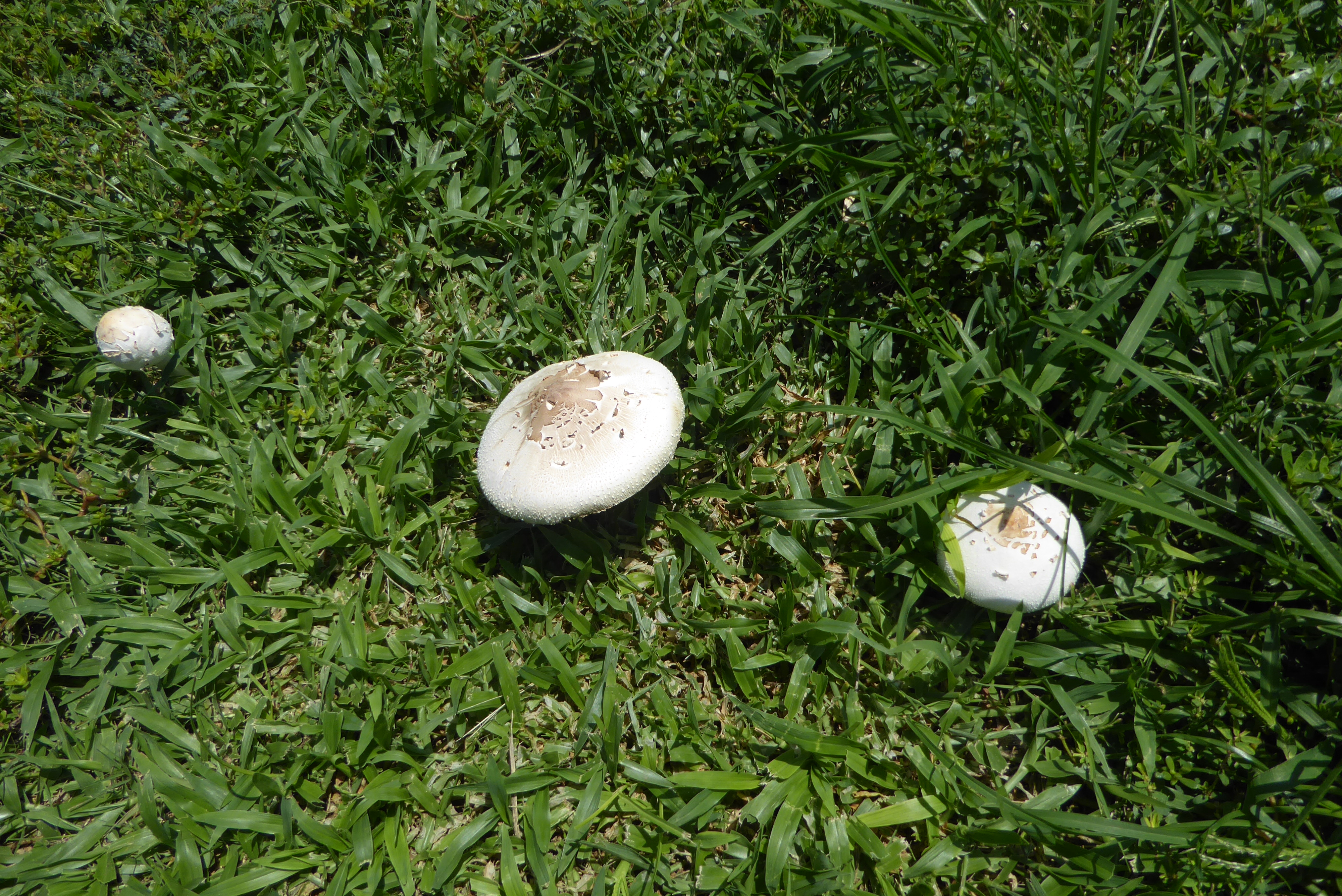 Edith Wolfson Park